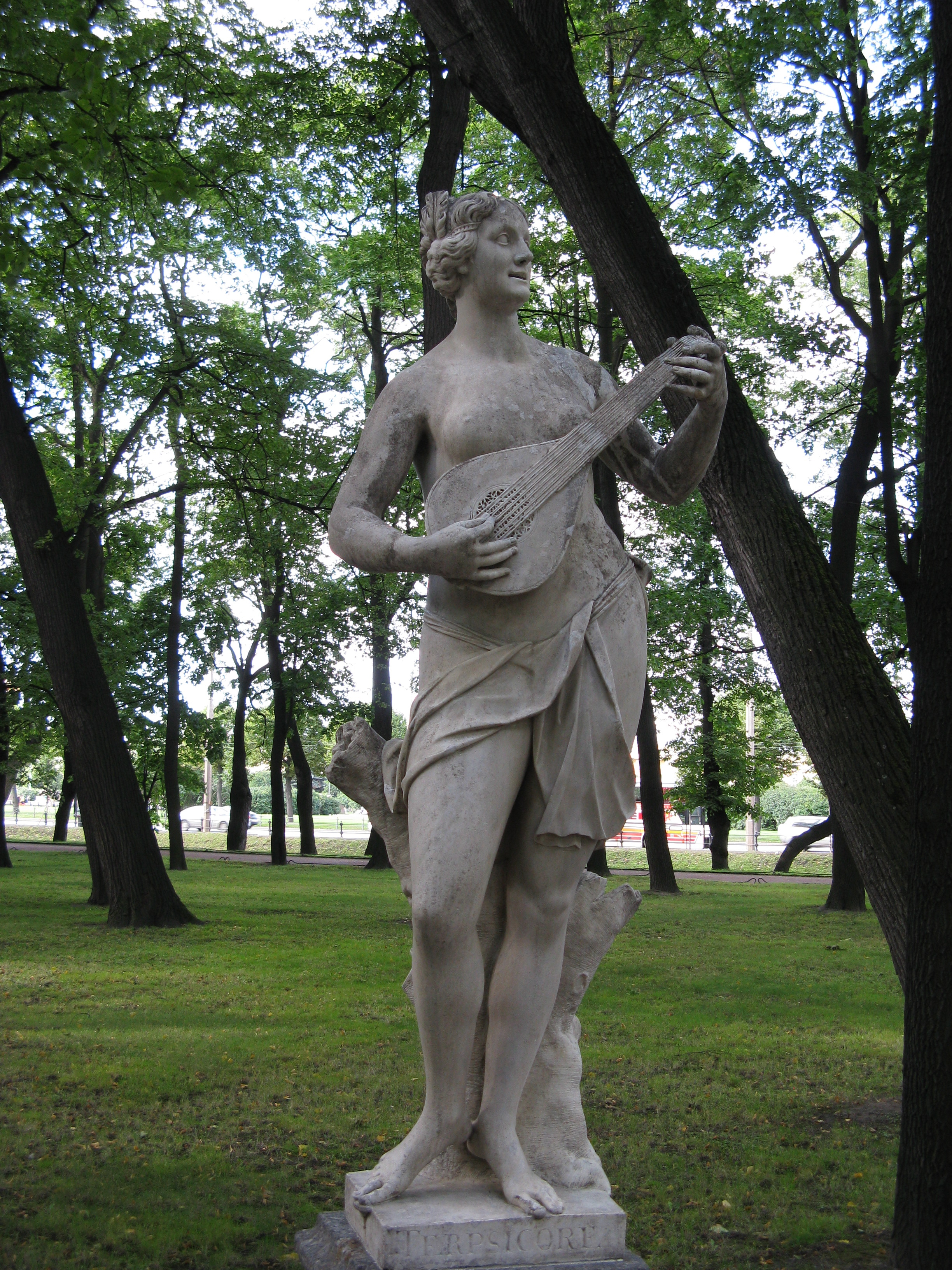 Terpsichore by Gropelli 1722 at Summer Garden.